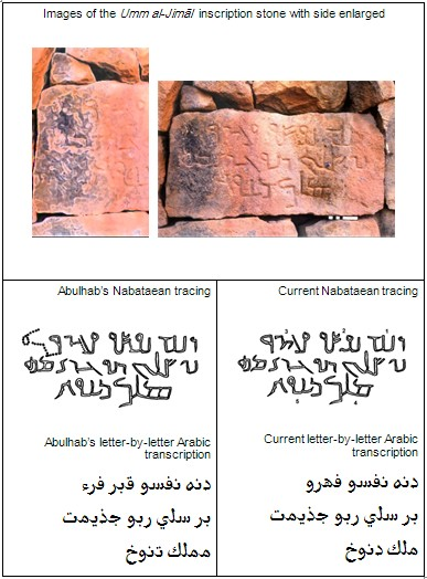 Images, tracings, and readings of the Umm al-Jimal Nabataean Inscription